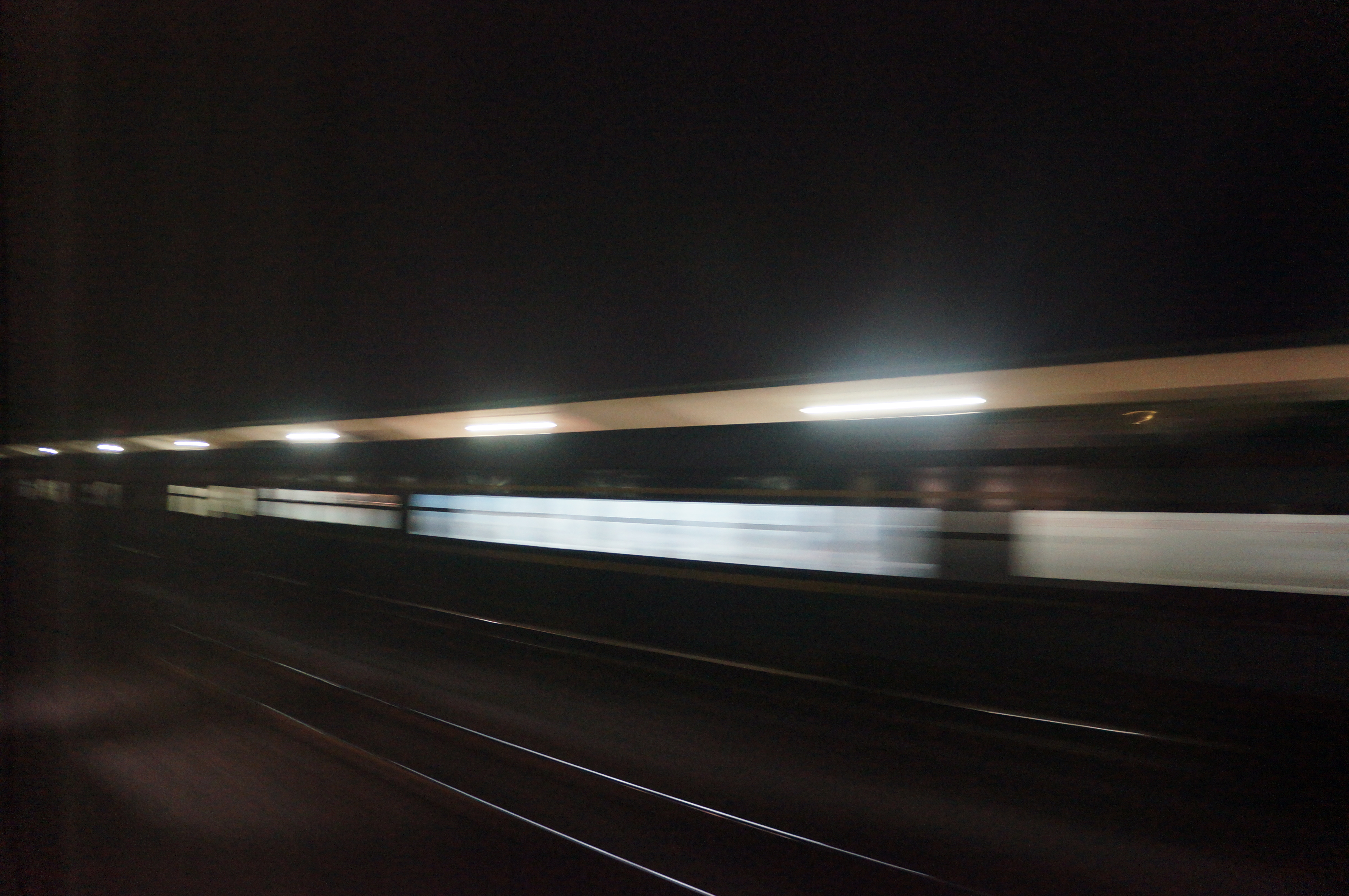 201606 Z9 passes Yucheng Station